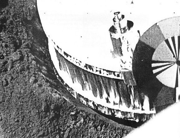 Surveyor-1-foot-pad